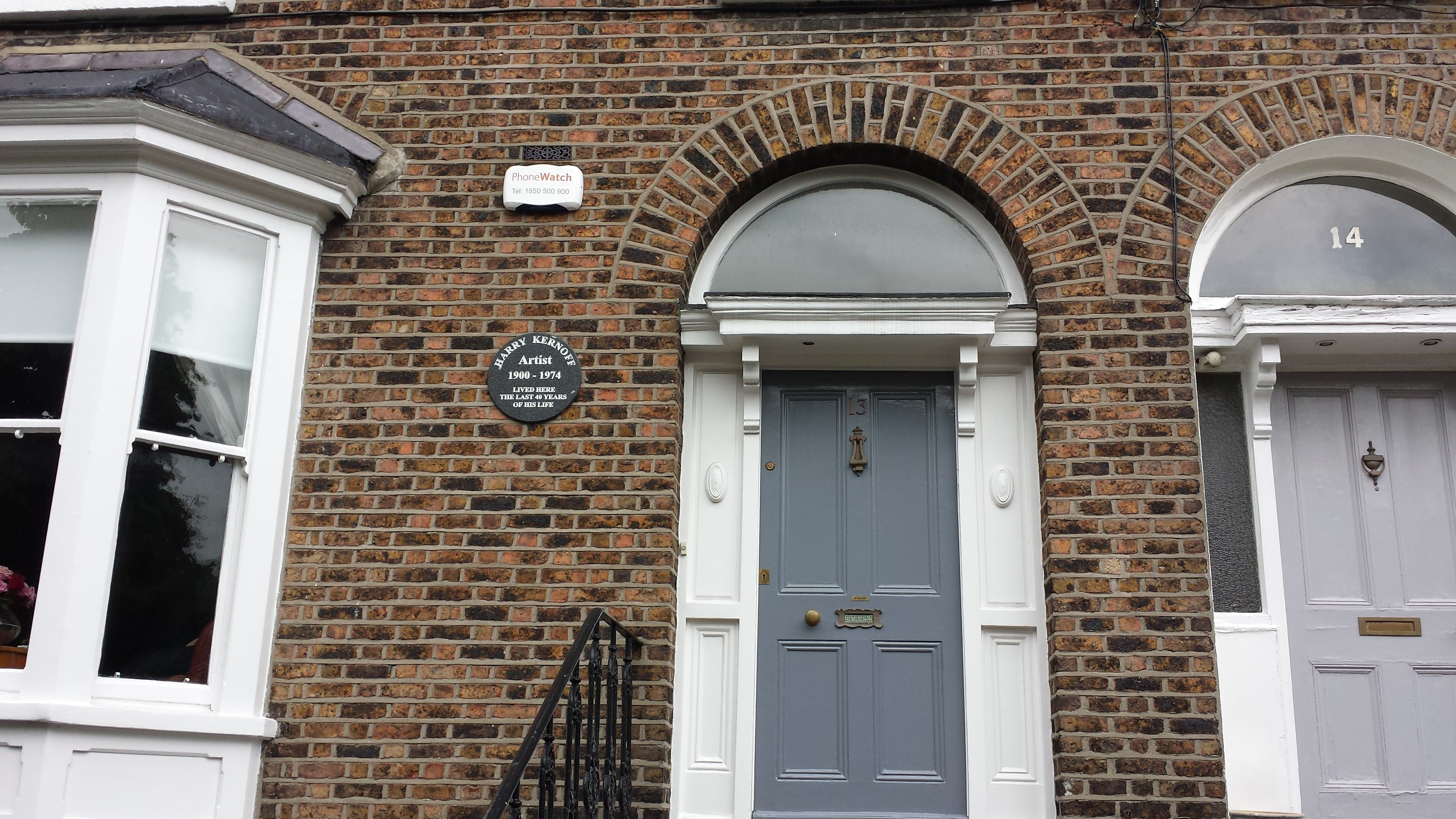 Harry Kernoff Artist 1900-1974 Lived Here the Last Forty Years of his Life